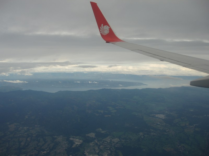 Lake Toba seen from the plane